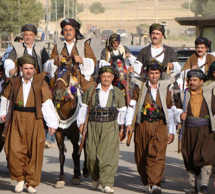 Kurdish men traditional clothing